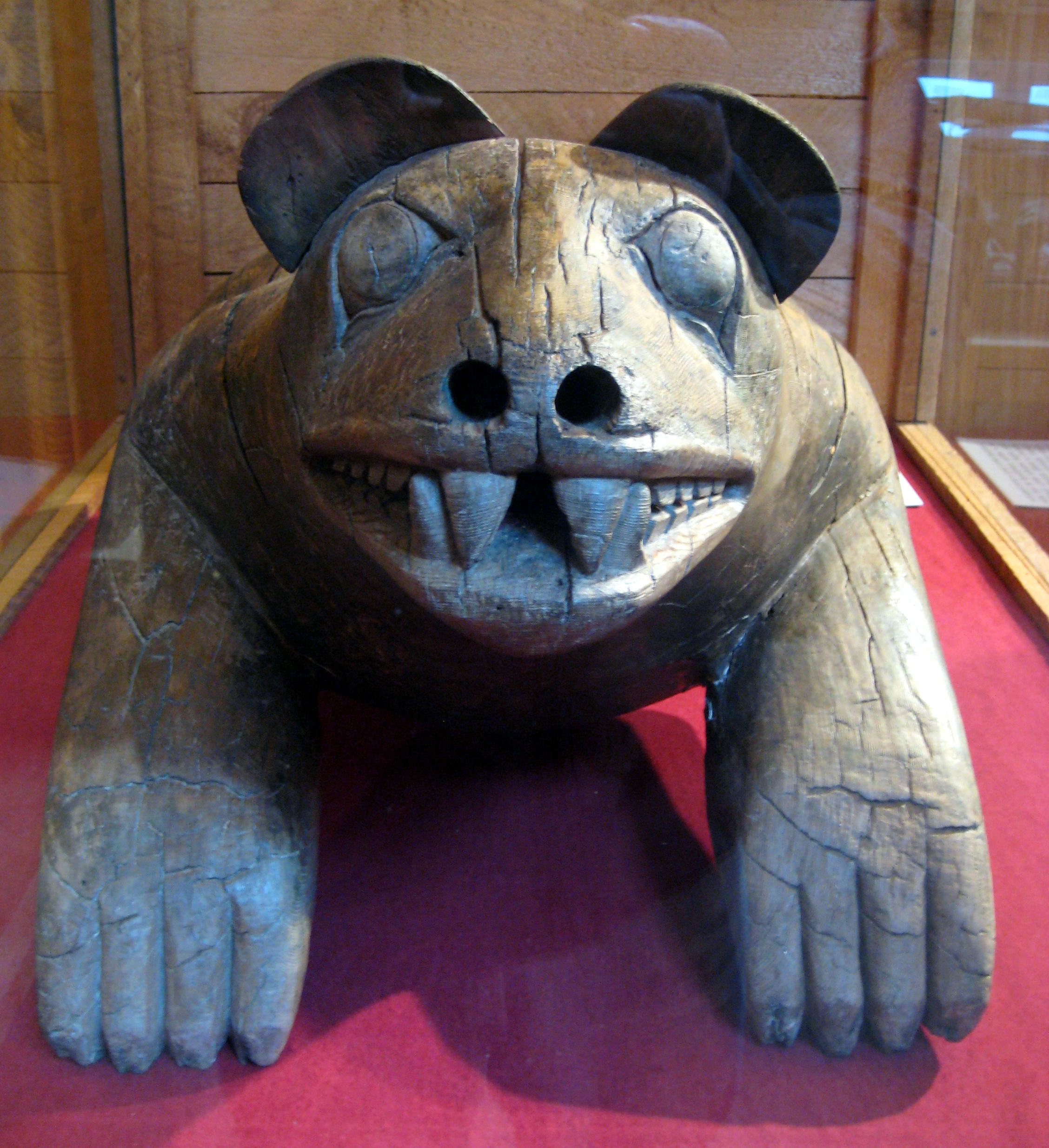 Tsimshian woodcarving of a feline at the Museum of Northern British Columbia.